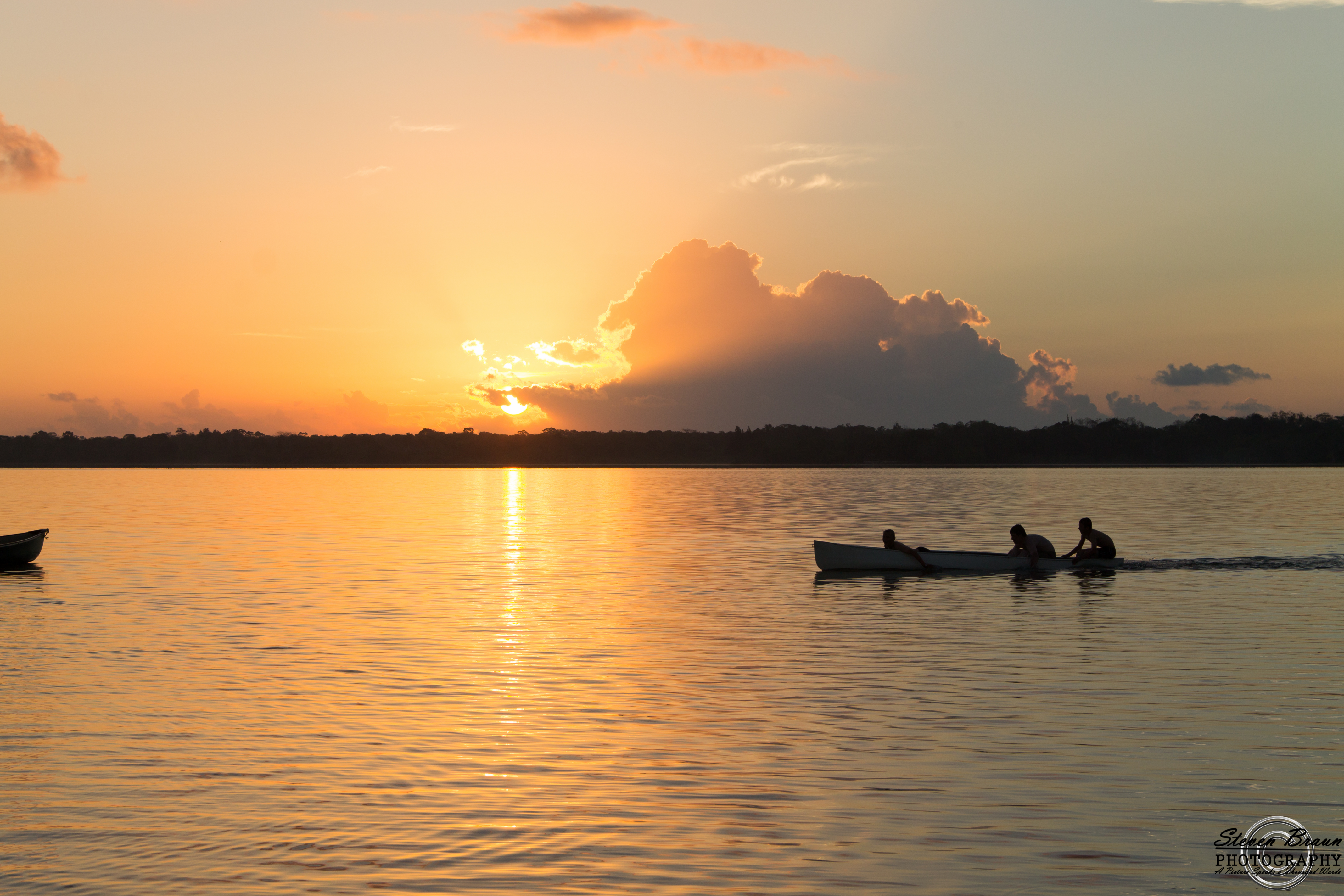 Sunrise at Honey Camp Lagoon